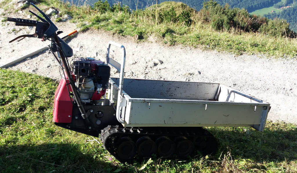 Compact power carrier, manufactured by honda